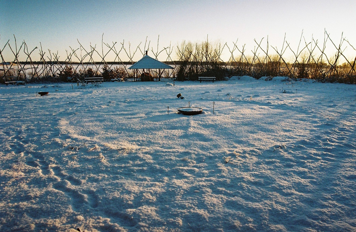 Globolo in Sieben Linden Ecovillage